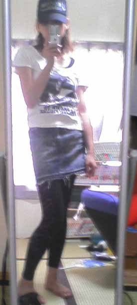 Women's clothing